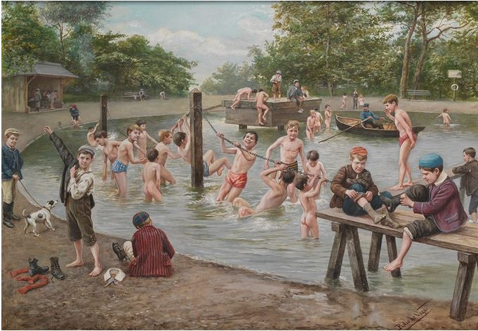 Young Men Bathing